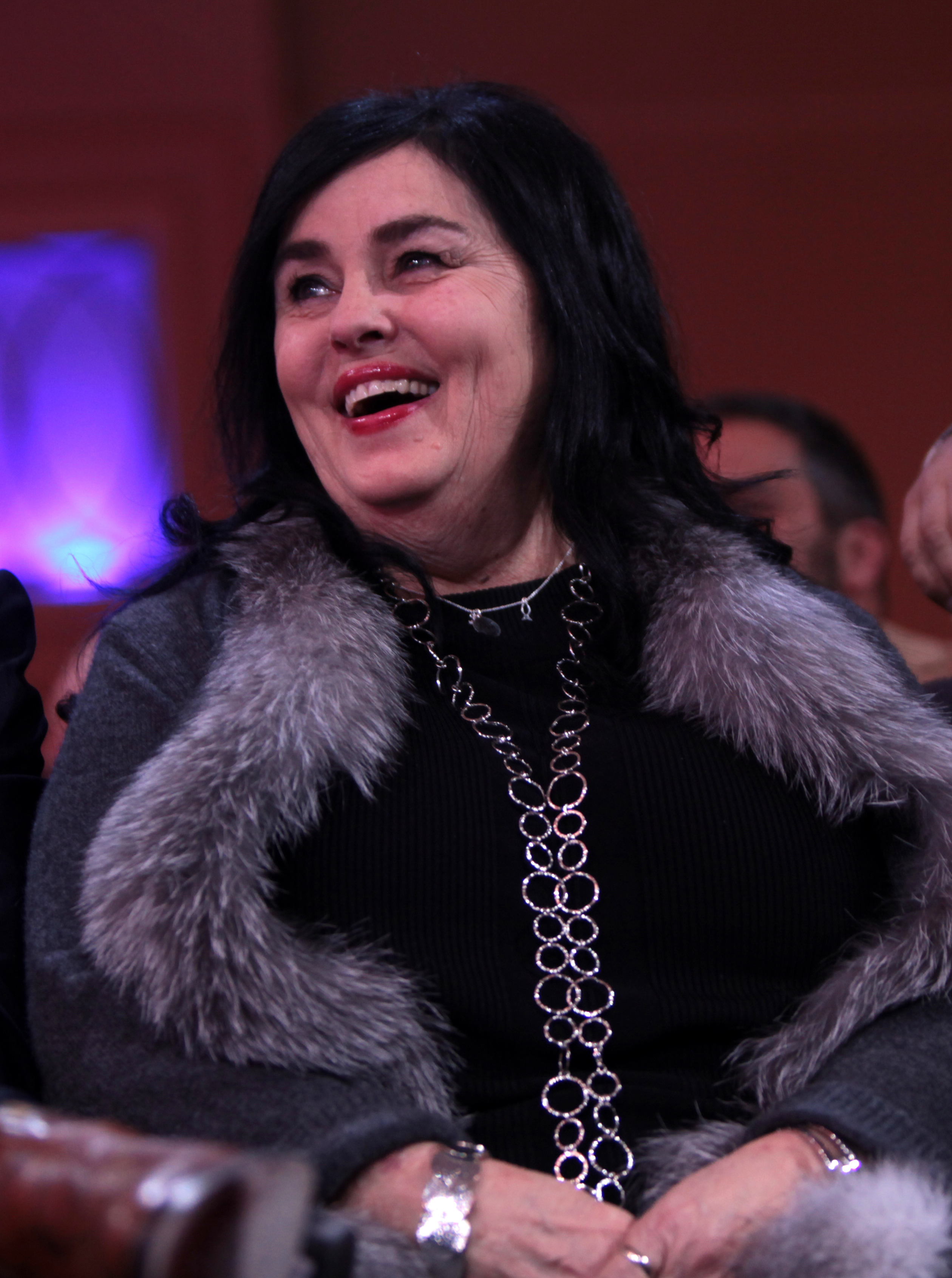 Kay Robertson speaking at CPAC 2015 in Washington, DC.